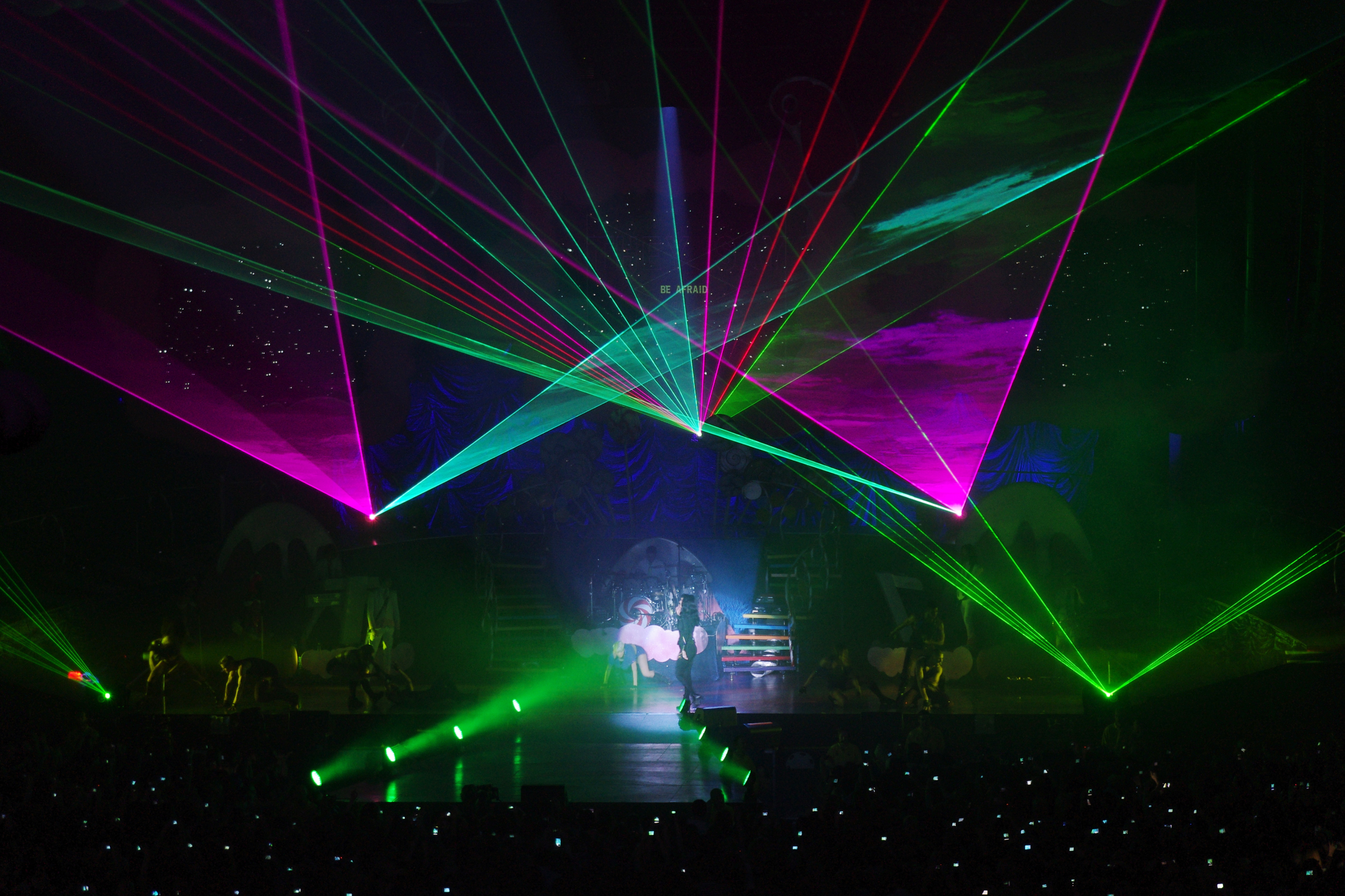 Katy Perry performs "E.T." onstage at the Capital FM Arena in Nottingham.